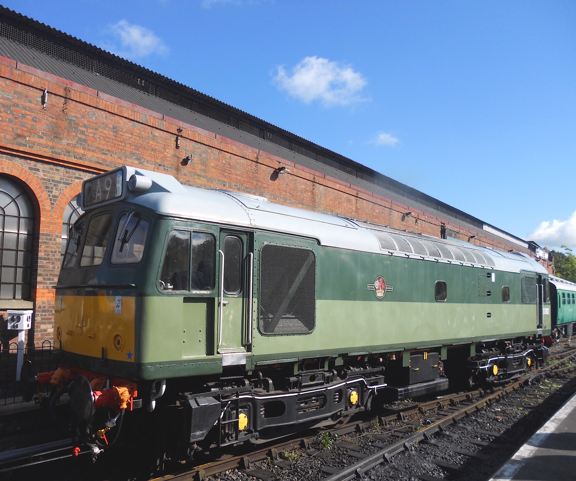 British Railways Class 25 D7612 runs round the train at Tunbridge Wells West at the Spa Valley Railway